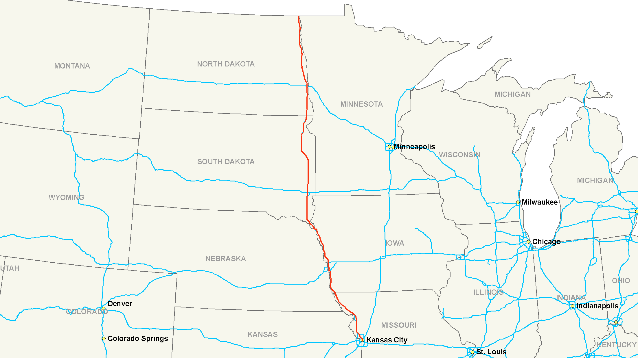 Map of Interstate 29